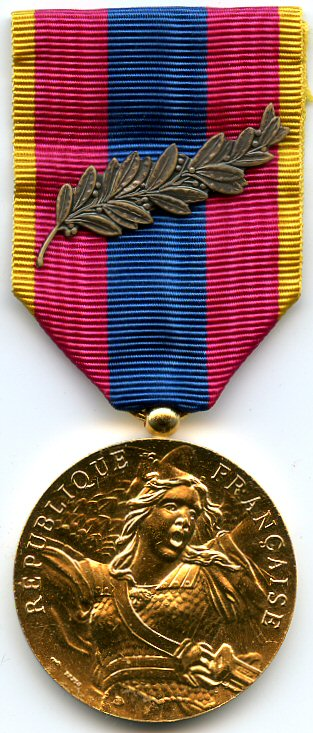 National Defence Medal, gold level for exceptional circumstances, with palm device.